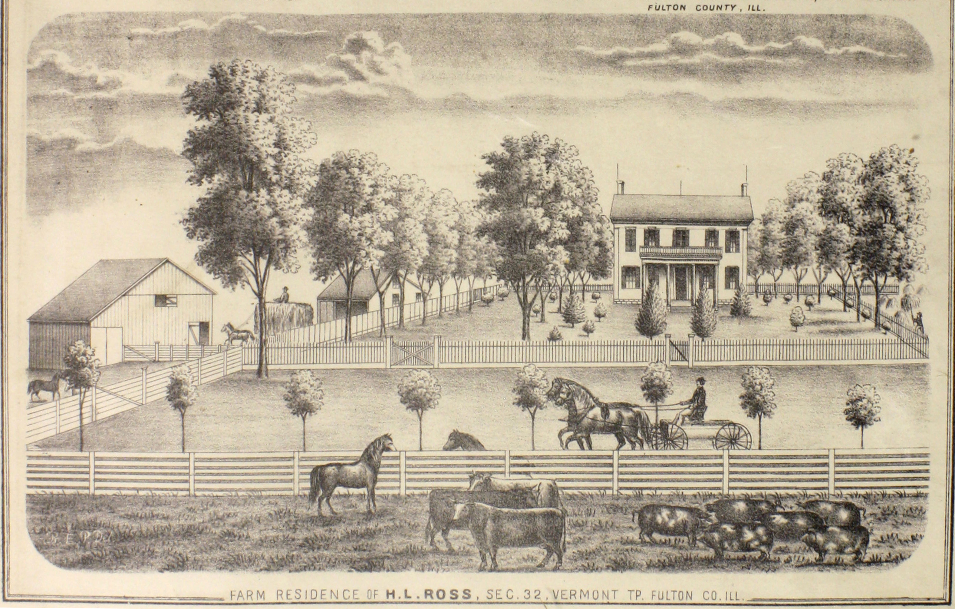 Drawing depicting the farm and residence of Harvey Lee Ross in Vermont, Illinois. The drawing was made between 1858 (the year the house was constructed) and 1871 (the publication date of the drawing).